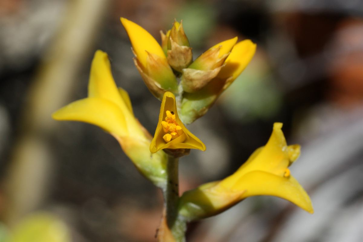 Dyckia choristaminea (small form) flowers